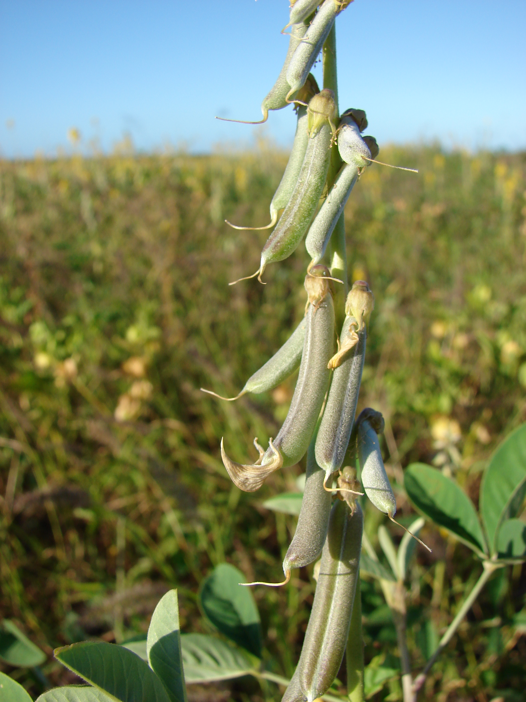 Crotalaria incana (seedpods). Location: Maui, Kahului